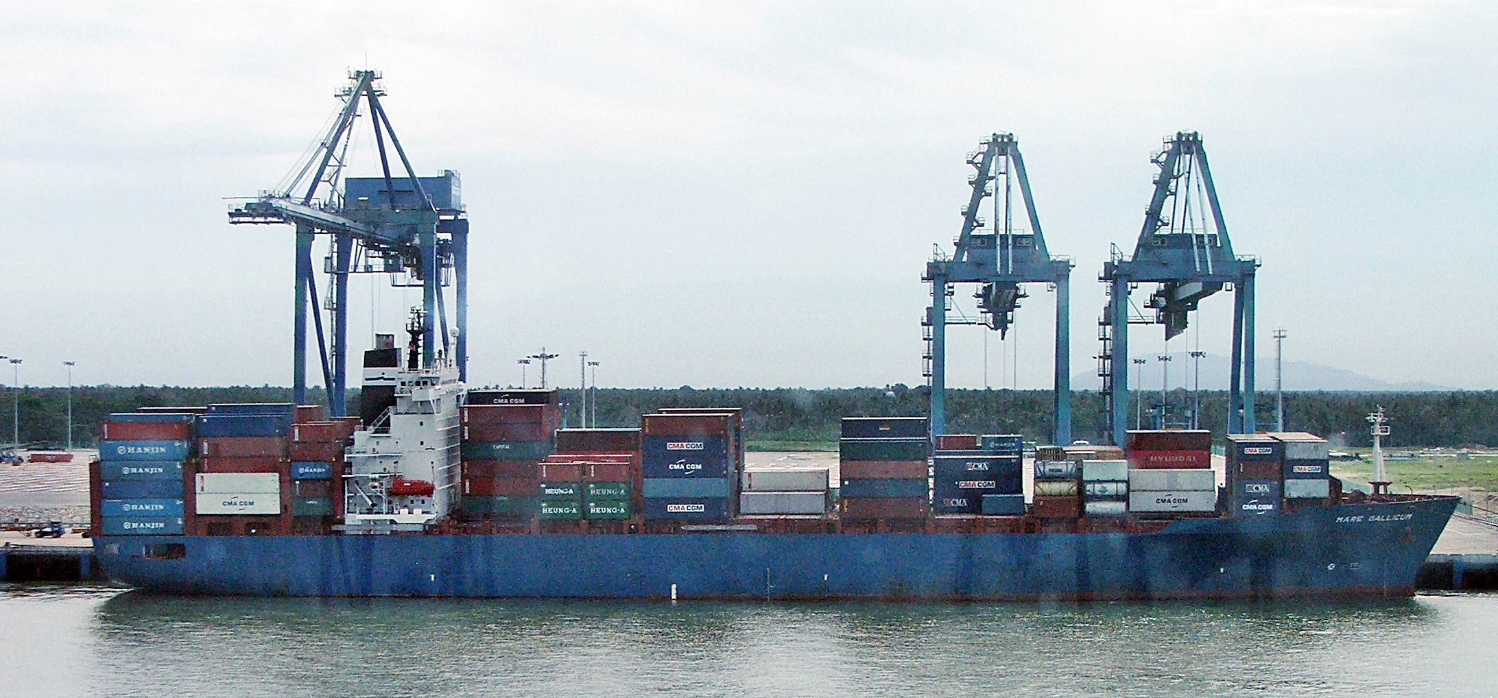 Container Vessel 'Mare Gallicum' at Port Kelang, Malaysia Information about Mare Gallicum may be found at IMO 9122394. A ship can change name and flag state through time, but the IMO number remains the same through the hull's entire lifetime. As a result, it can be useful to identify a ship by using the IMO number.